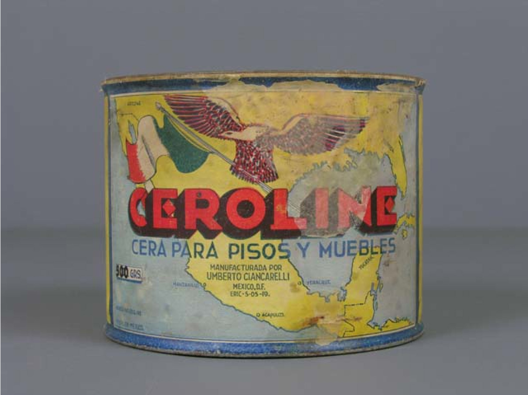 Can of Ceroline wax from Mexico from first half of the 20th century.